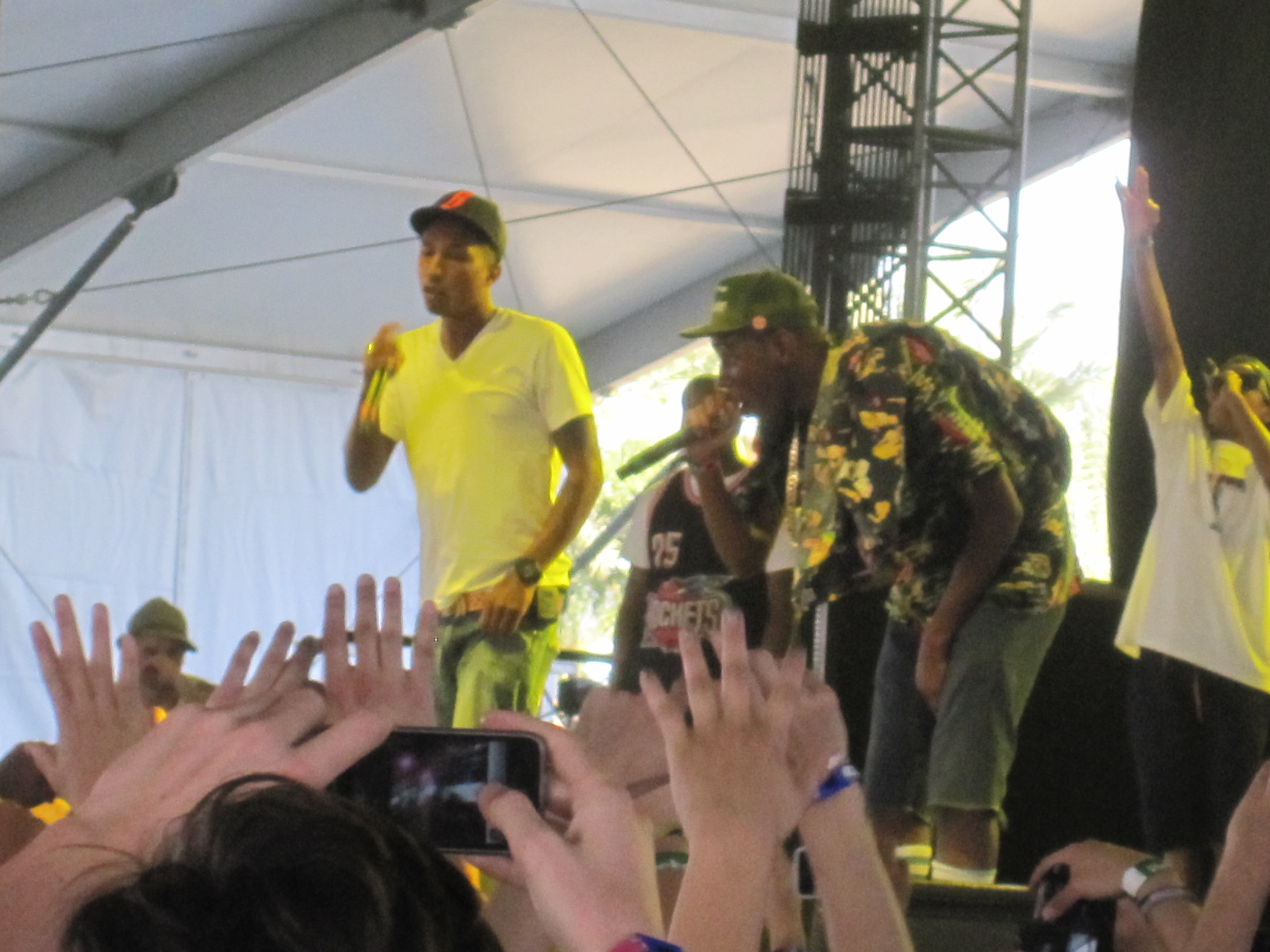 Odd Future with Pharrell Williams.